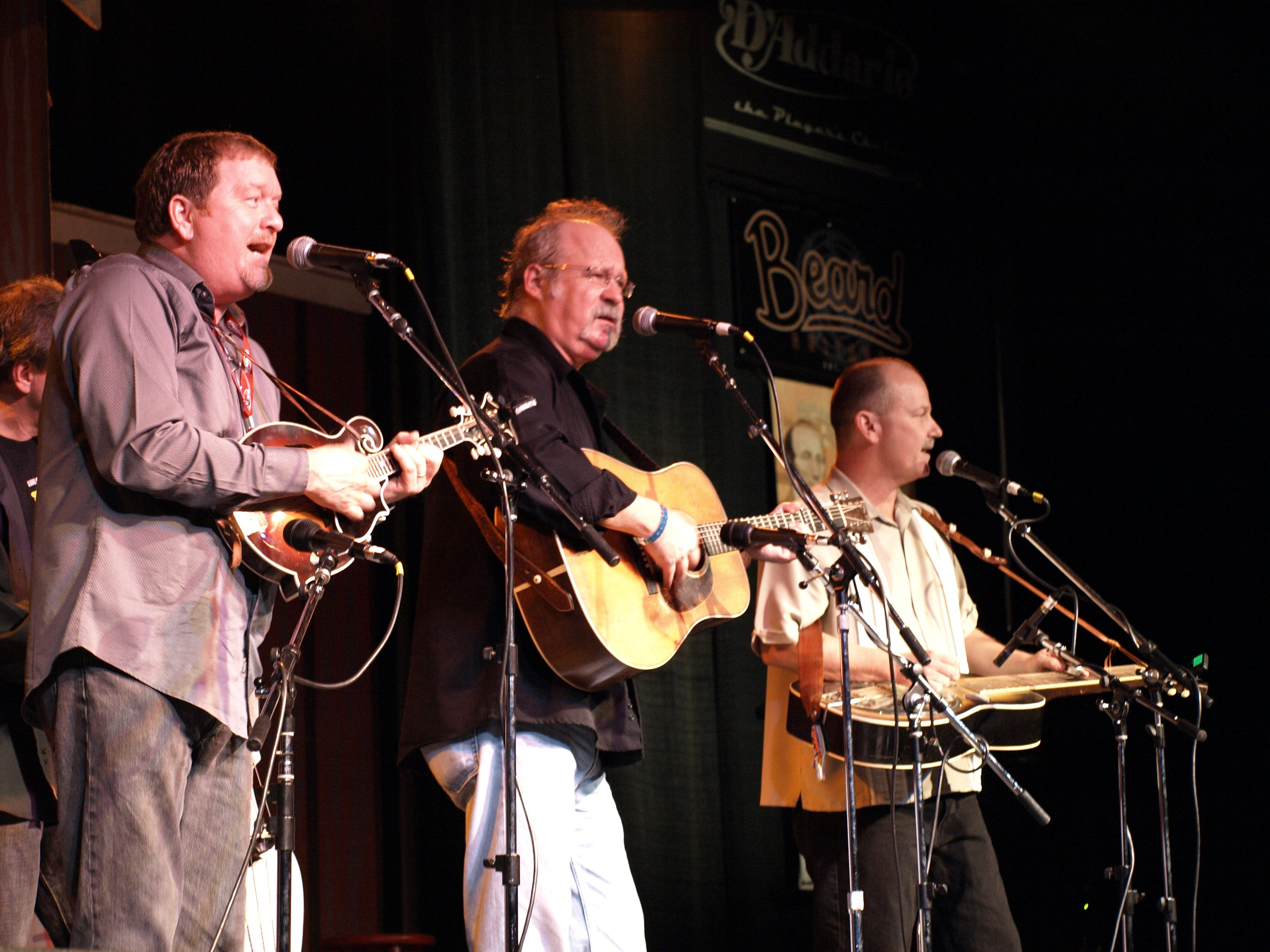 Lou Reid, Dudley Connell, Fred Travers. Wintergrass, 2008